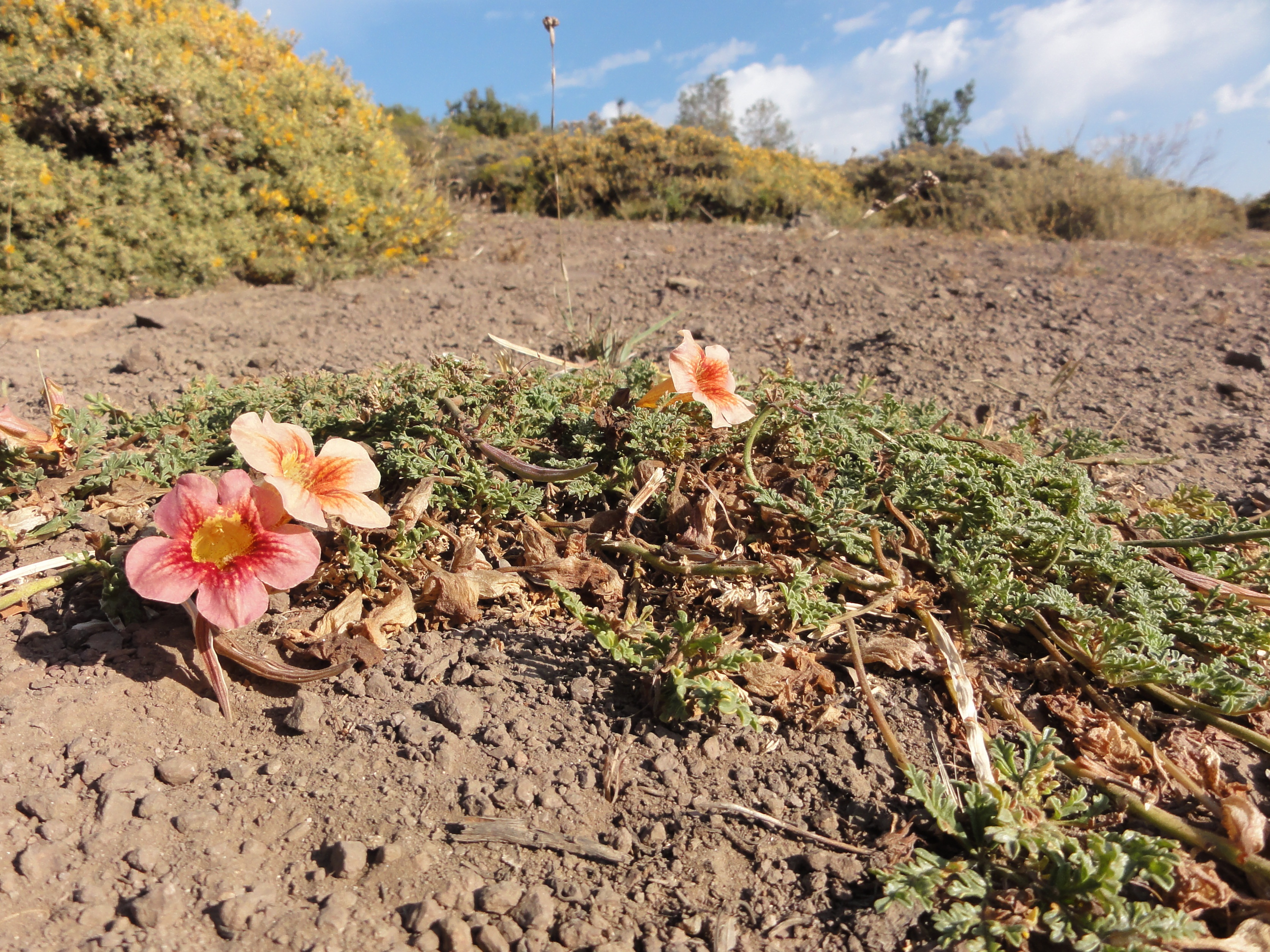 Argylia adscendens on Cerro Provincia near Santiago, Chile on February 8, 2011. The photo is taken from an almost ground-level vantage point that highlights the flattened structure of the plant.